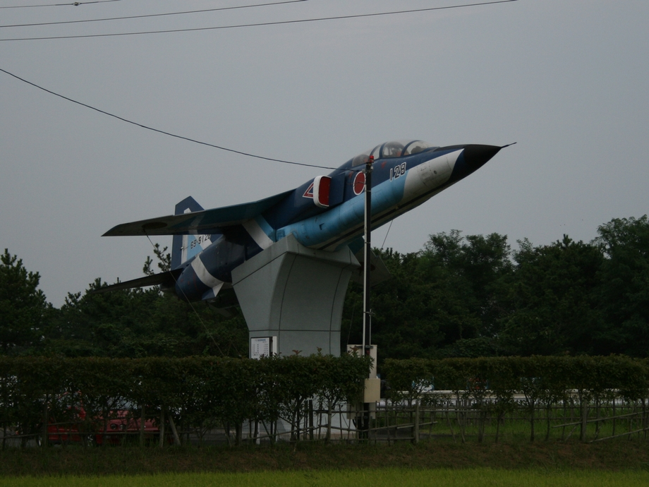 ASDF Mitsubishi T-2 trainer near Kazuma Station, Higashimatsushima, Miyagi, Japan